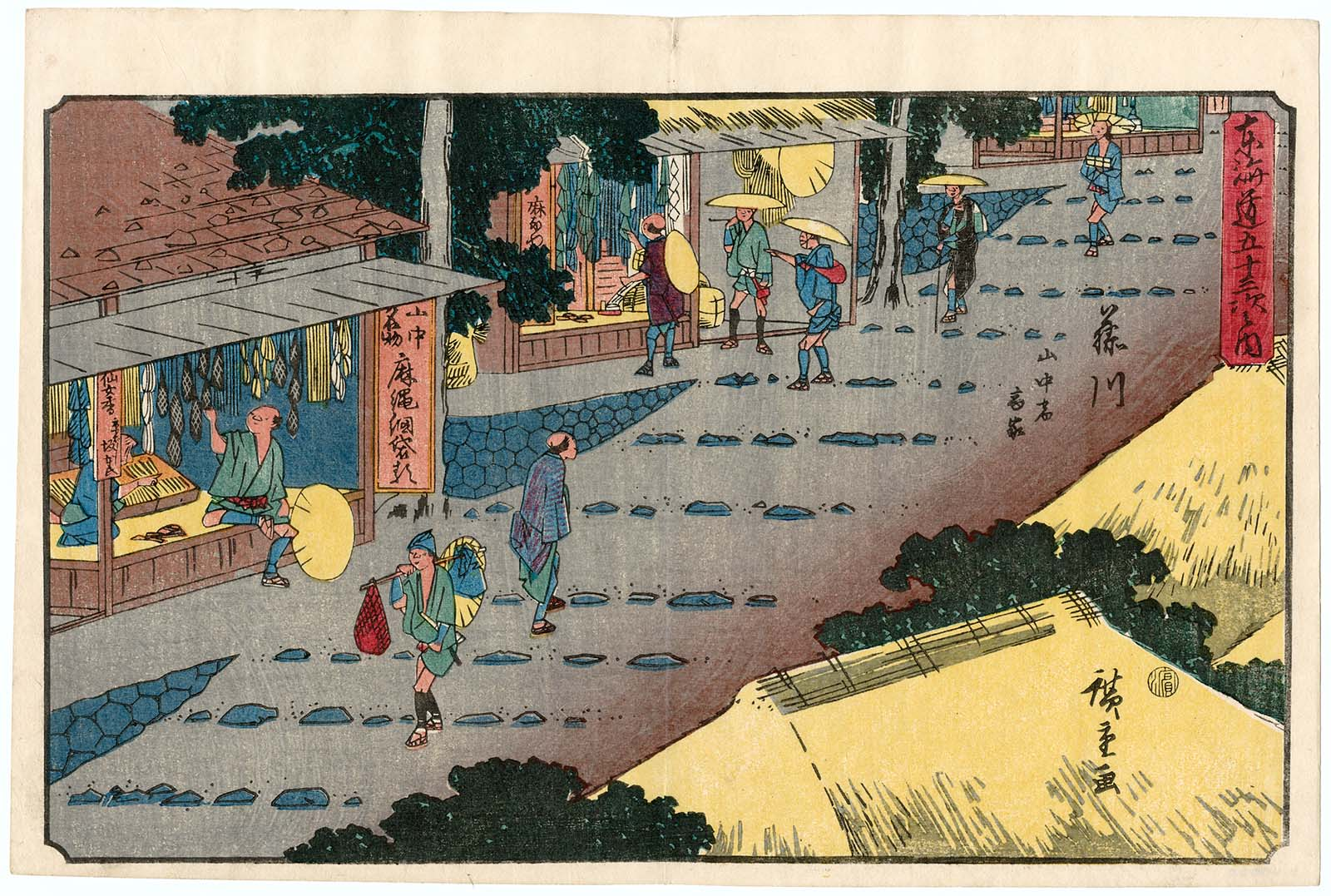 Fujikawa: Inns and Shops on the Mountainside (Fujikawa, sanchû shuku shôke), from the series The Fifty-three Stations of the Tôkaidô Road (Tôkaidô gojûsan tsugi no uchi), also known as the Gyôsho Tôkaidô